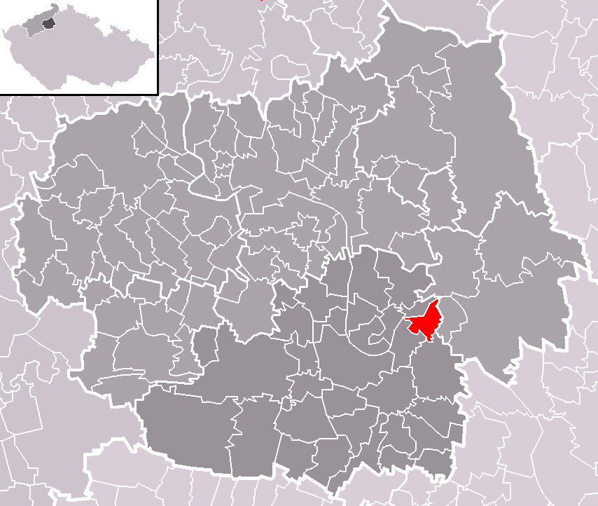 Location of Záluží municipality within Litoměřice District and administrative area of Roudnice nad Labem as a Municipality with Extended Competence.